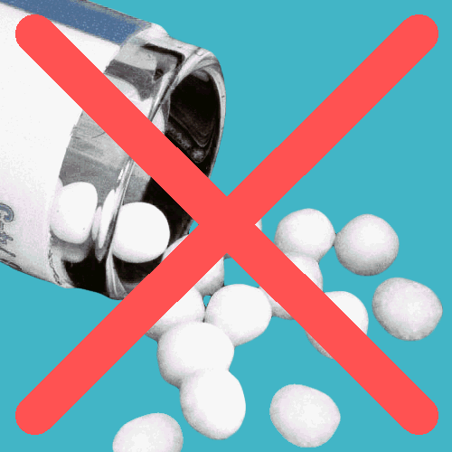 No Globuli